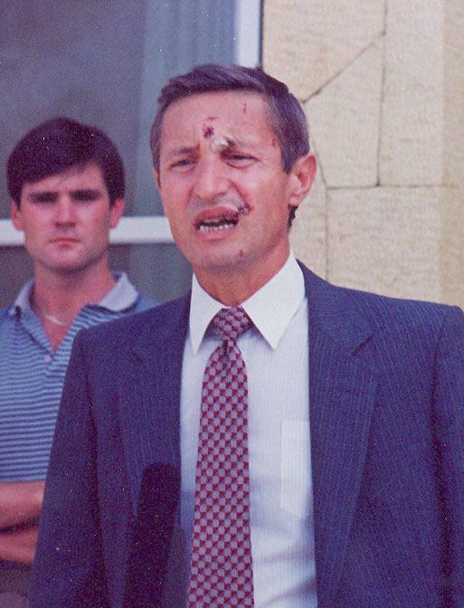 Former United States Ambassador to Lebanon Reginald Bartholomew at a press conference in Beirut, Lebanon with Richard W. Murphy, United States Assistant Secretary of State for Near Eastern affairs. Photograph by Nancy Wong, September 1984.